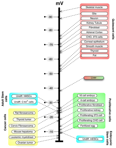 Schematic diagram of voltage across cell types